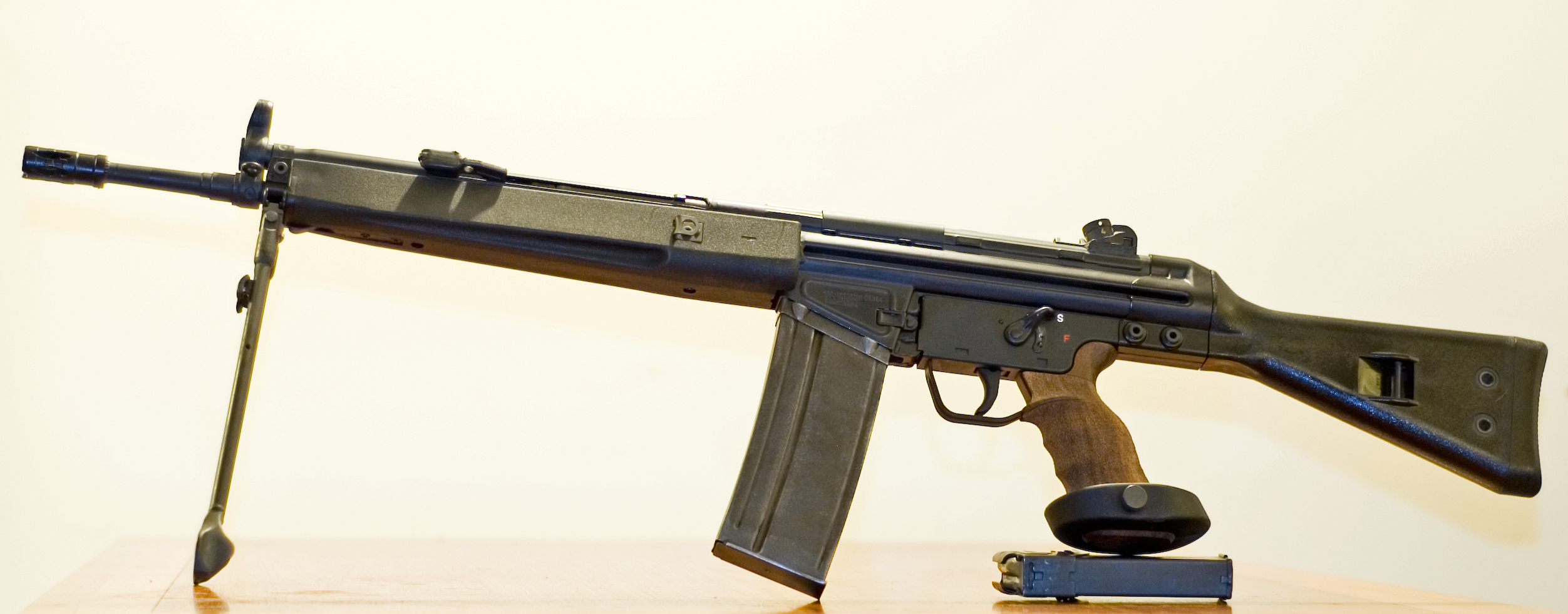 My Greek-made SAR-8 rifle, a licensed copy of the HK91. With PSG-1 pistol grip, bipod and 30-round magazine.